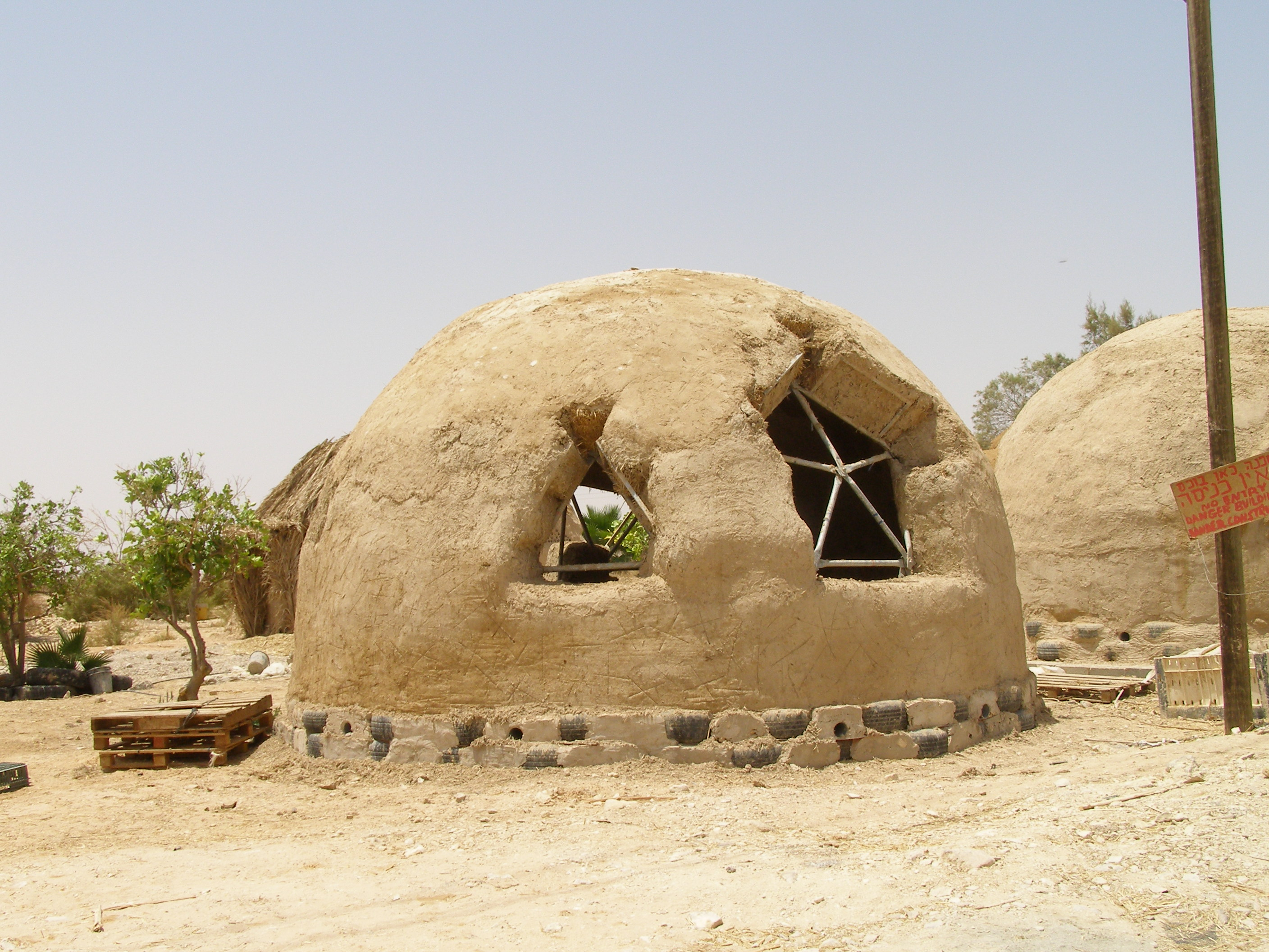 An ecological mud hut. Kibbutz Lotan, Israel